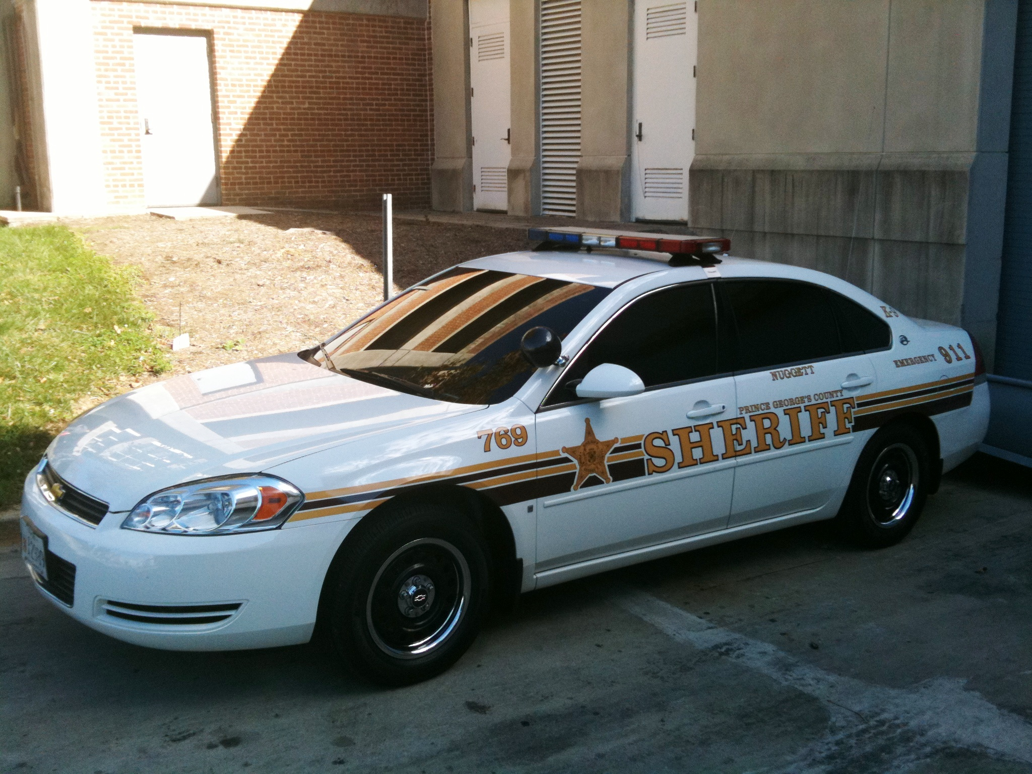 A marked Chevrolet Impala of the K-9 division of the Prince George's County Sheriff's Office, in October 2008.